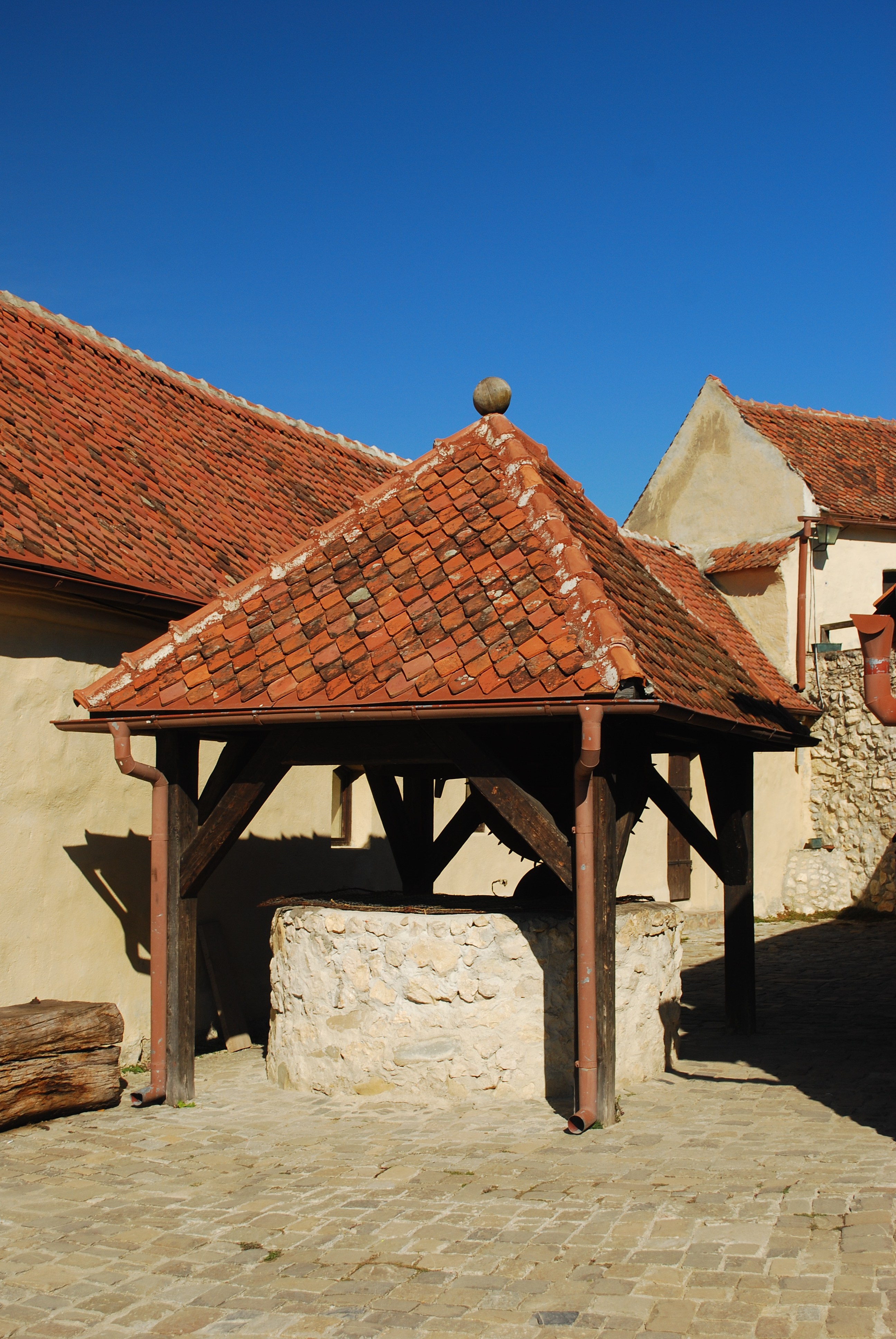 Waterwell inside Râşnov fortress, Braşov County, Romania